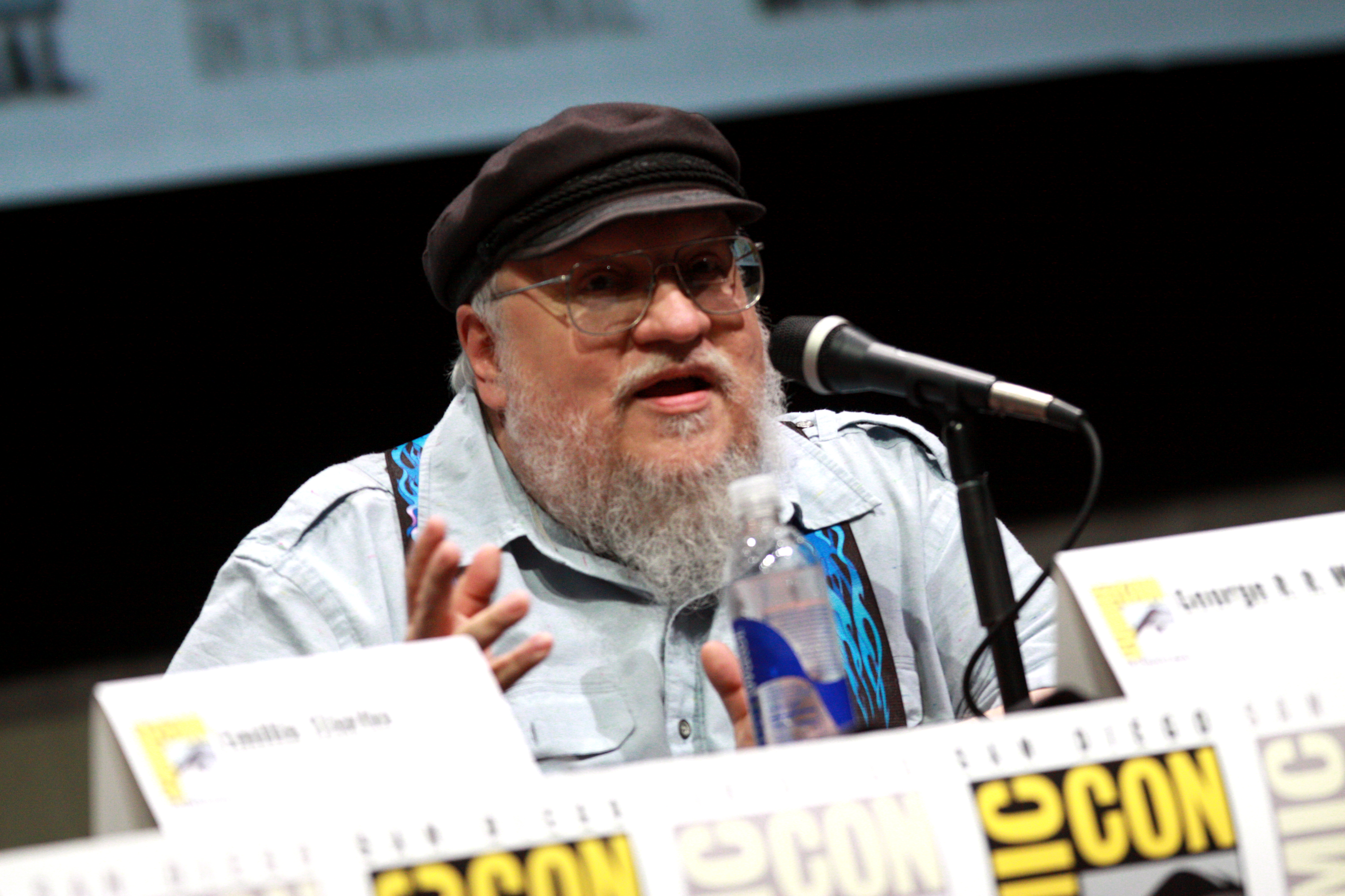 George R. R. Martin speaking at the 2013 San Diego Comic Con International, for "Game of Thrones", at the San Diego Convention Center in San Diego, California.